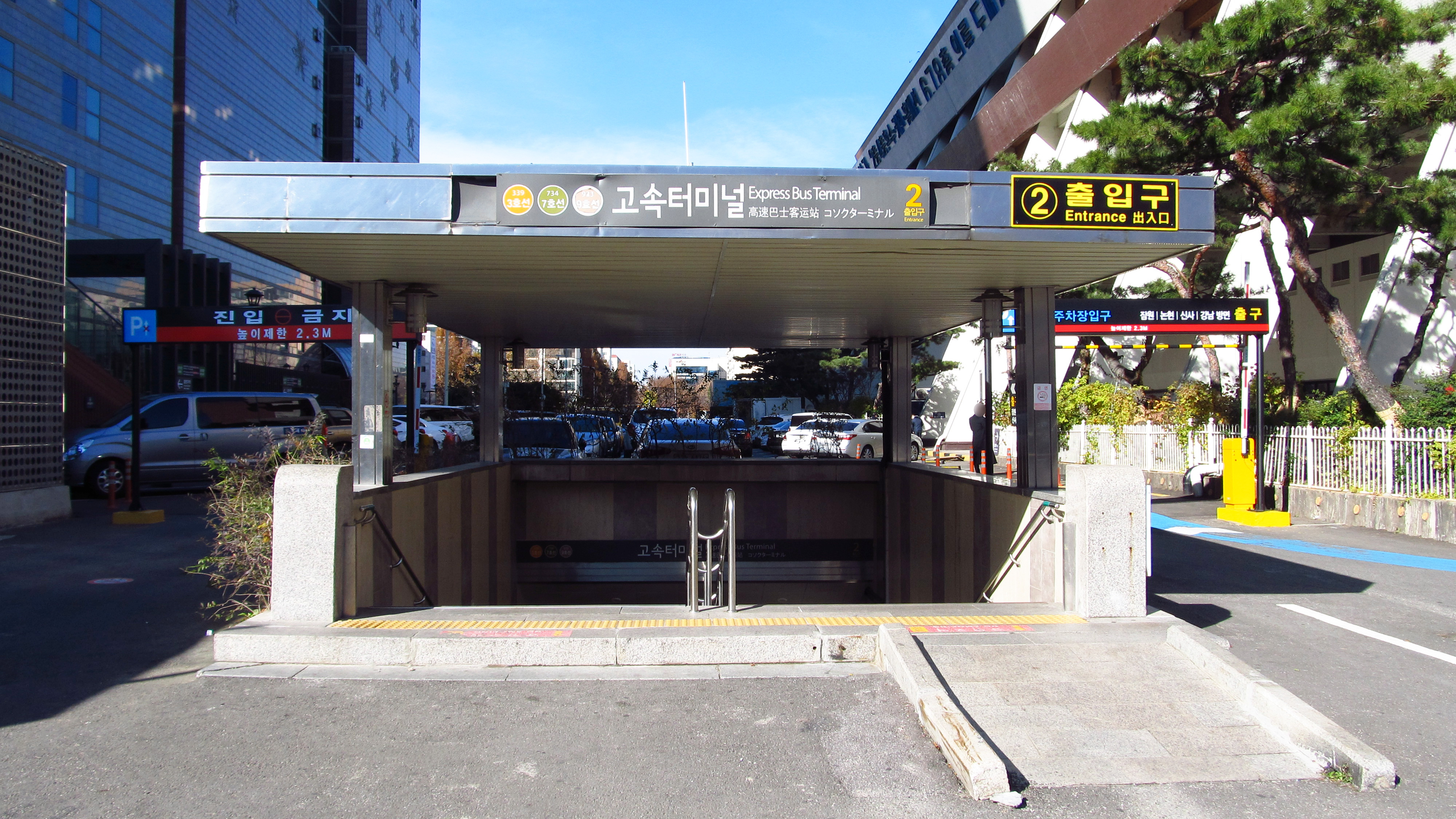 The no.2 entrance to Express Bus Terminal Station on Seoul Subway Line 3 and Line 7 and Line 9 in Seocho-gu, Seoul, Republic of Korea(South Korea)